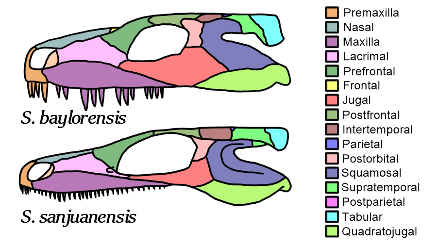 Color-coded skulls from two different species of Seymouria. The Seymouria baylorensis skull is based on a skull diagram from Laurin (1996), while that of Seymouria sanjuanensis is based on a skull diagram from Klembara et al. (2005). Skulls are not to scale.